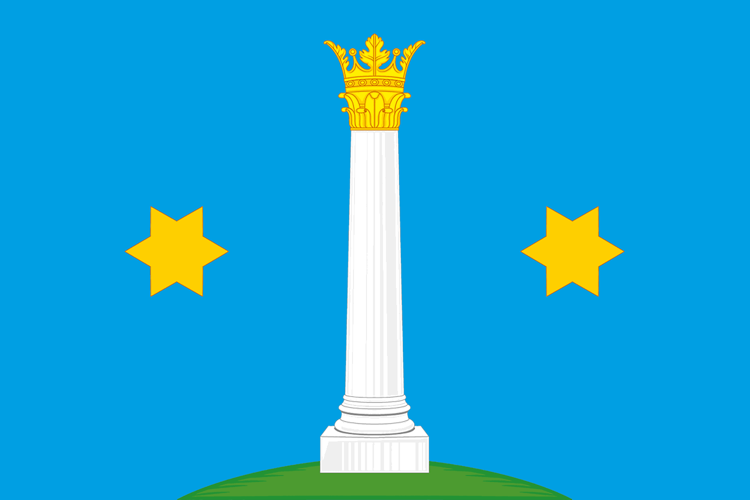 Flag of Kolomna district, Moscow Oblast, Russia